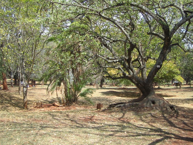 Arboretum, Nairobi